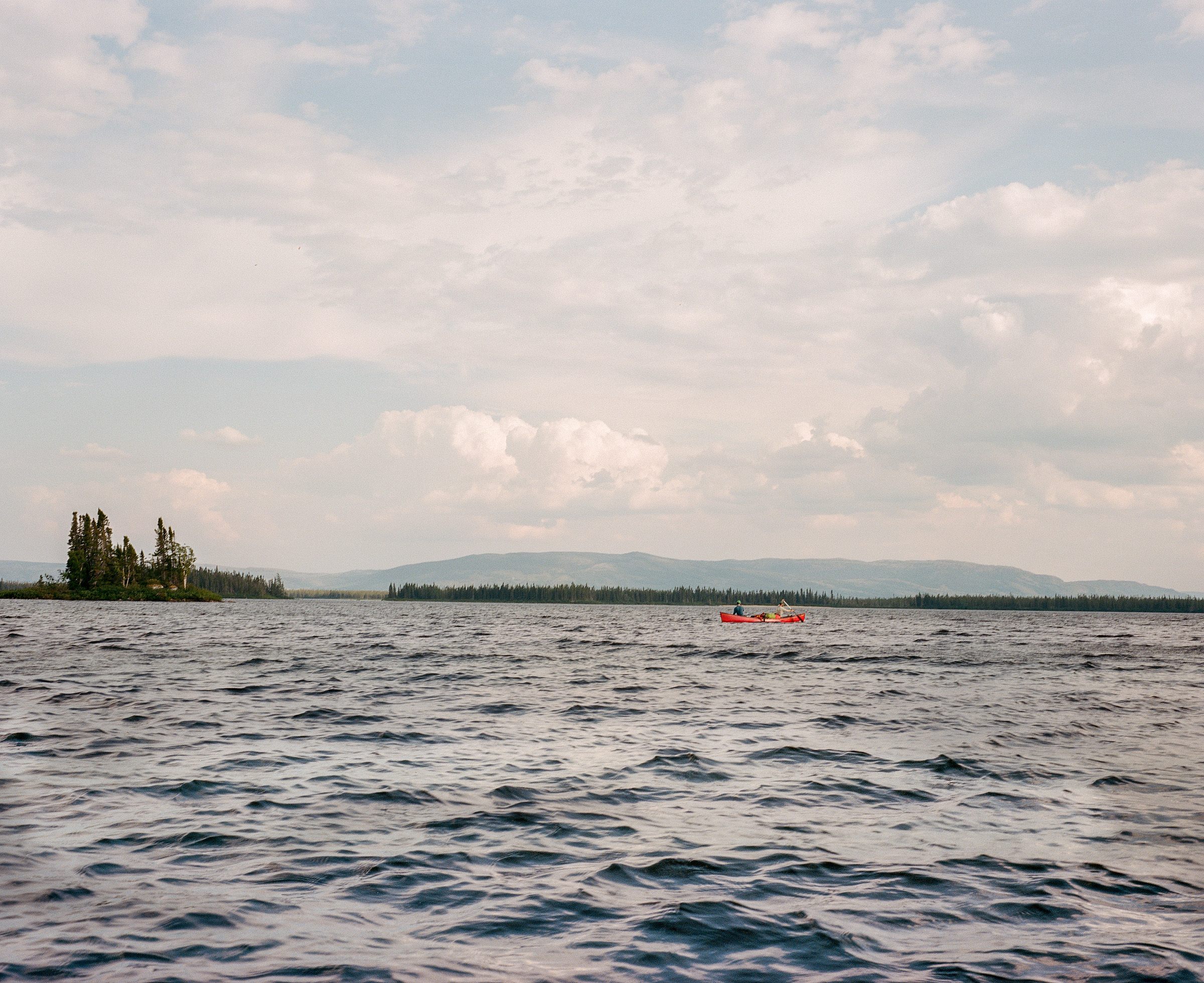 Paddling up Eastmain River to Otish Mountains. Taken in July 2018.